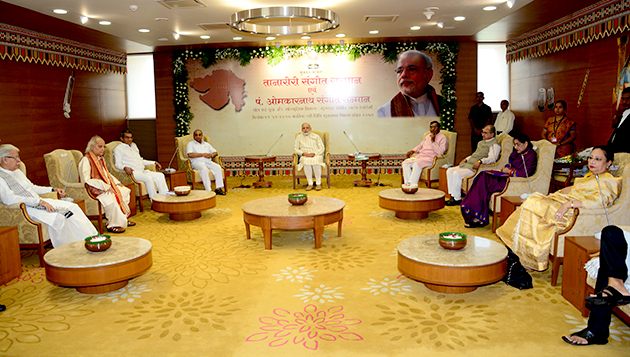 Narendra Modi presents Tana-Riri and Pandit Omkarnath Sangeet Awards to eminent Classical Singers